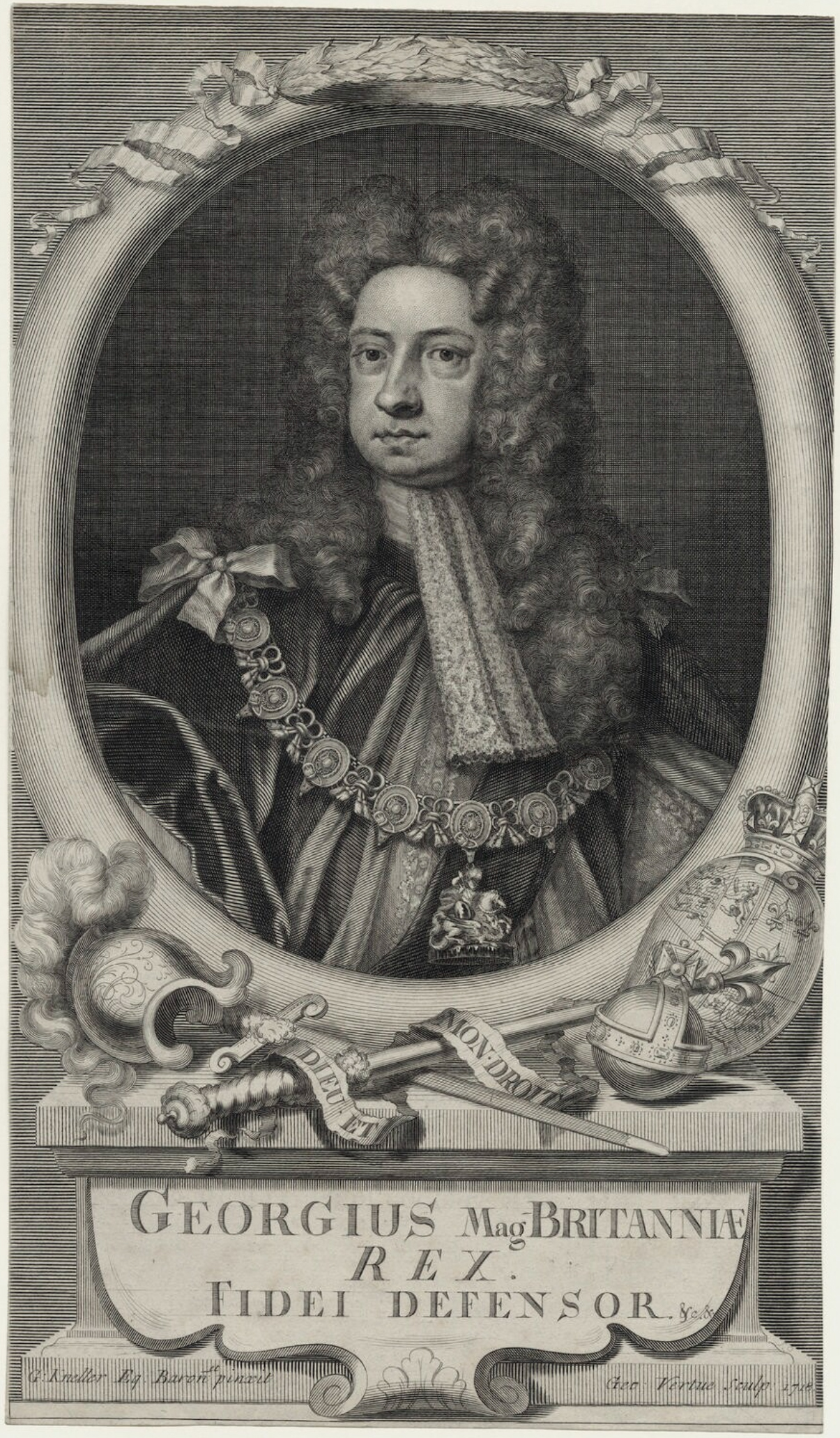 George I of Great Britain (1660-1727, r. 1714-1727)